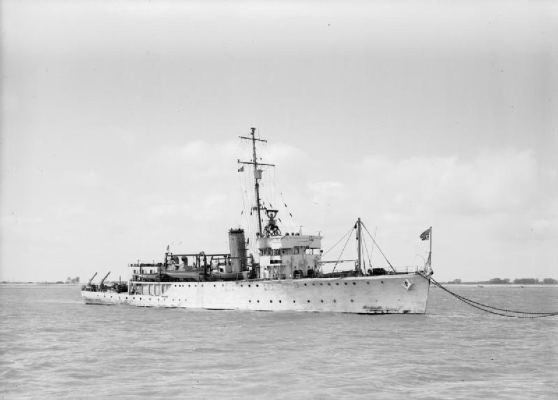 Photograph of British Halcyon class minesweeper HMS Seagull.